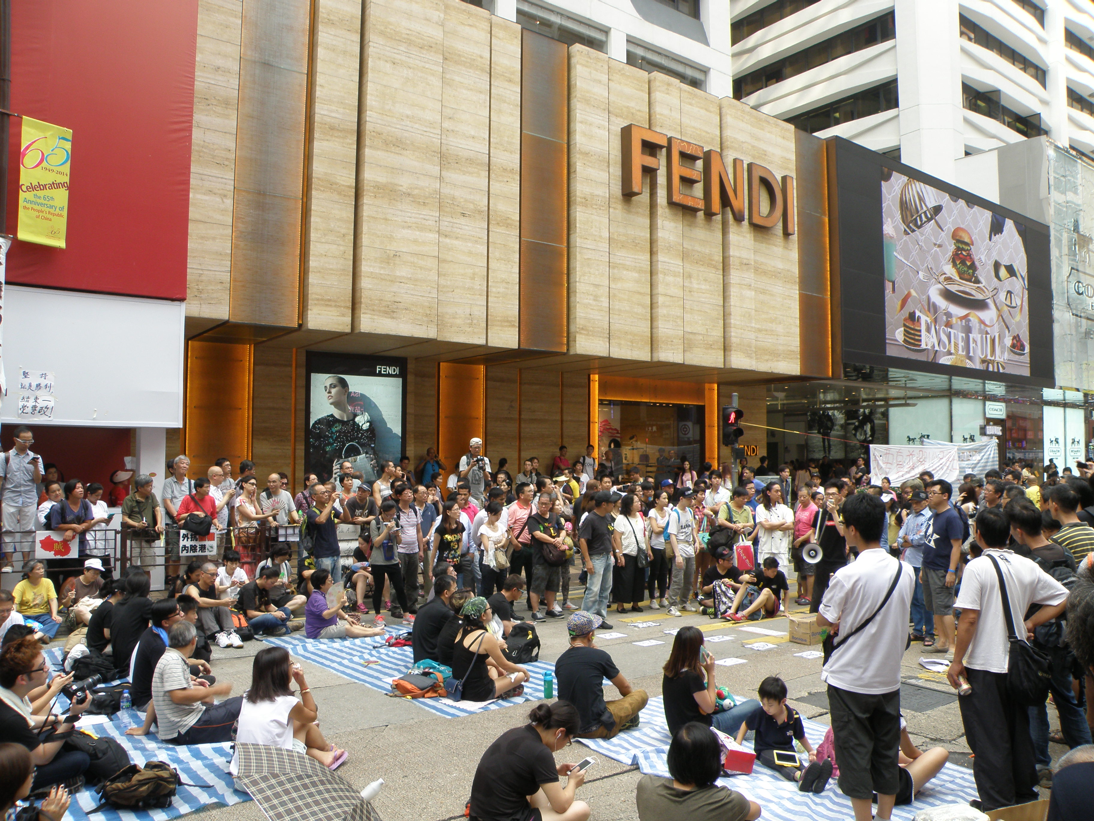 Occupy Central participators in the junction of Canton Road and Haiphong Road, Tsim Sha Tsui, Hong Kong.